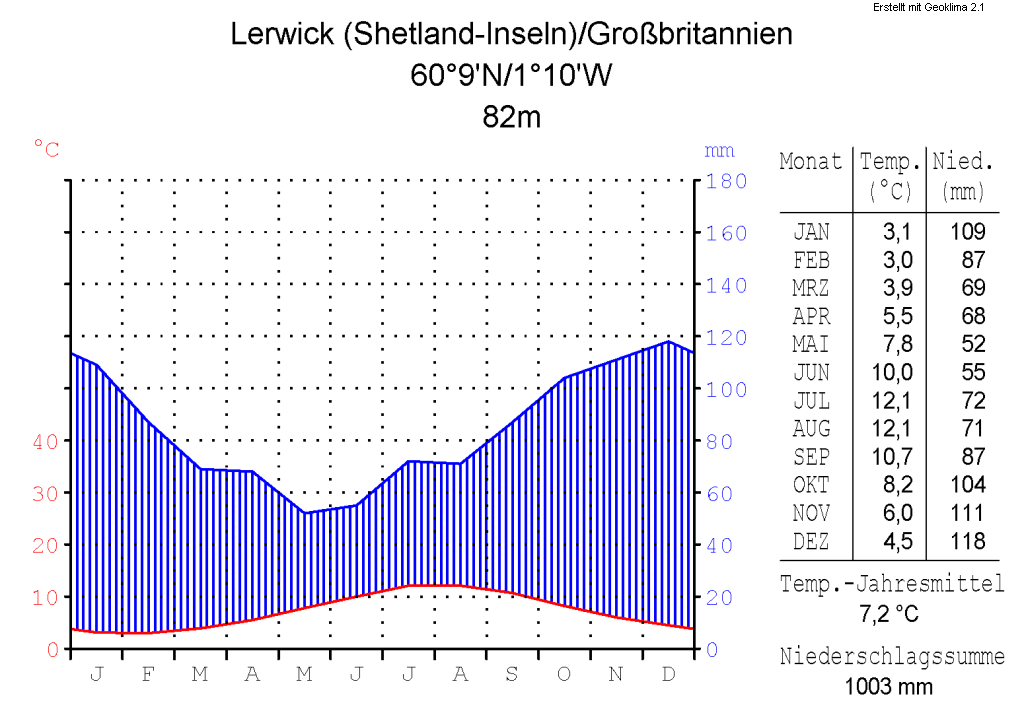 climate chart in the format by Walter and Lieth, metric, °Celsisus and millimeters, made with Geoklima 2.1